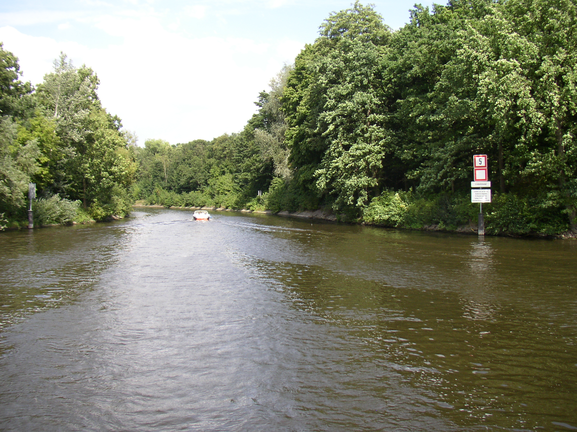 mouth of the canal seen from lake Griebnitzsse